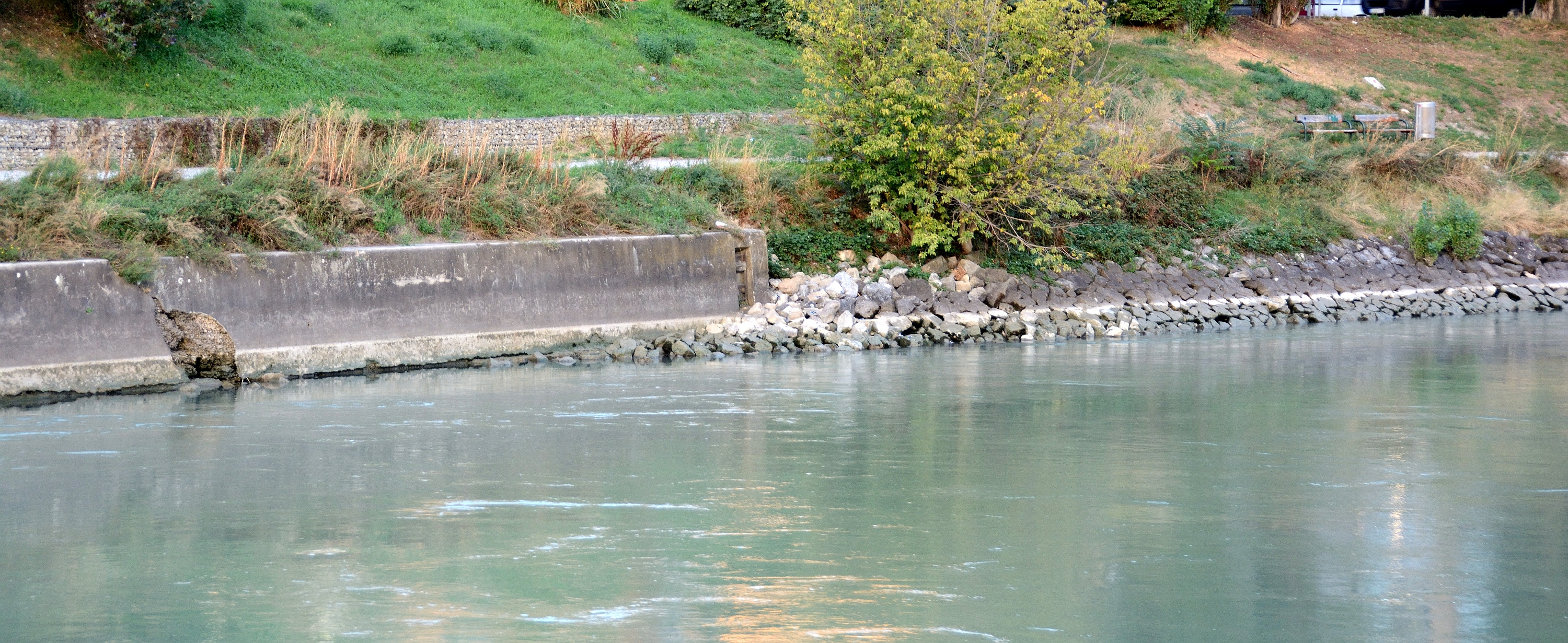 Bank stabilisation of Donaukanal in Vienna (downstream from Verbindungsbahnbrücke): Change from concrete stabilisation to riprap